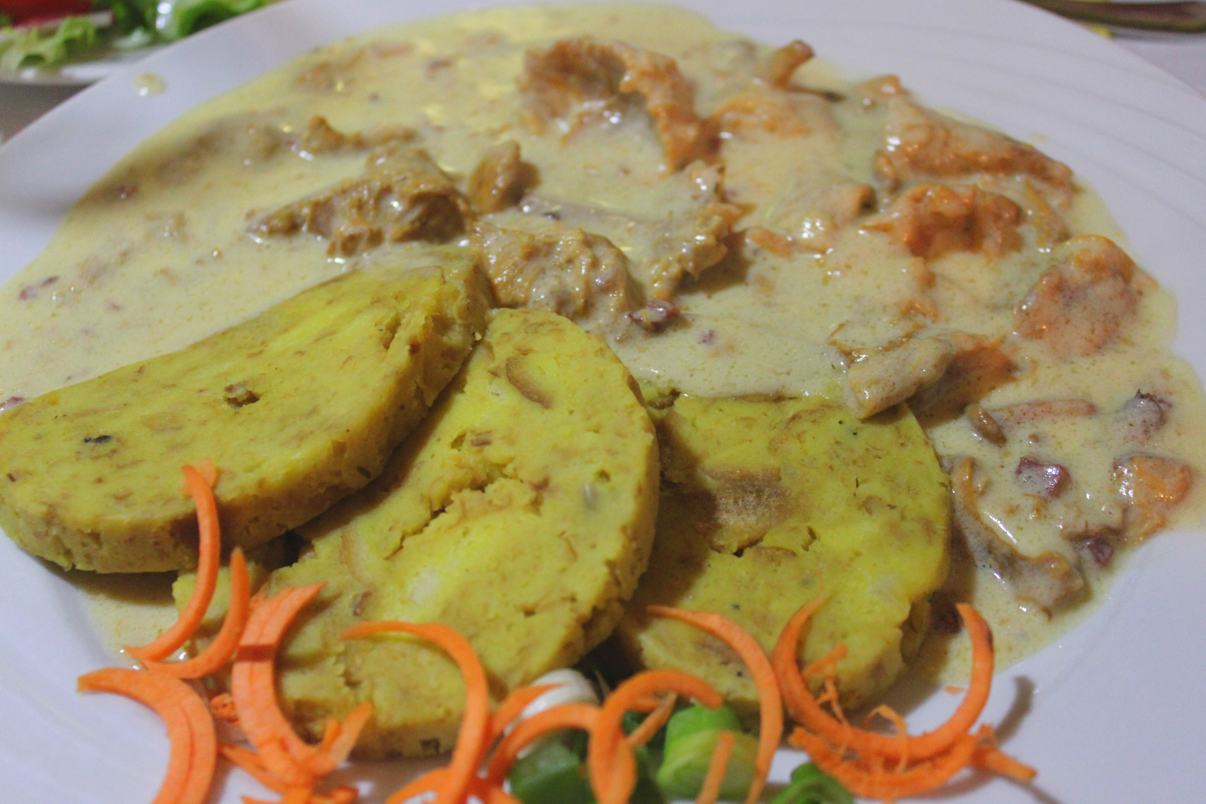 Chanterelles in cream sauce with Semmelkloß. Photographed in Schwarzen Ross in Presseck.